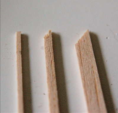 Three different sizes of balsa wood stock. Photo by Zach Vesoulis on feb 13 2006.